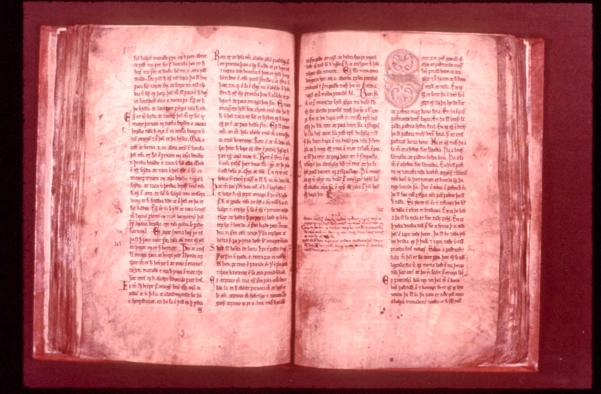 The Gray Goose Laws, Grágás, was the first lawbook for all of Iceland. It was in use during the free state, from about 930 to 1262-64. This is the Codex regius version.